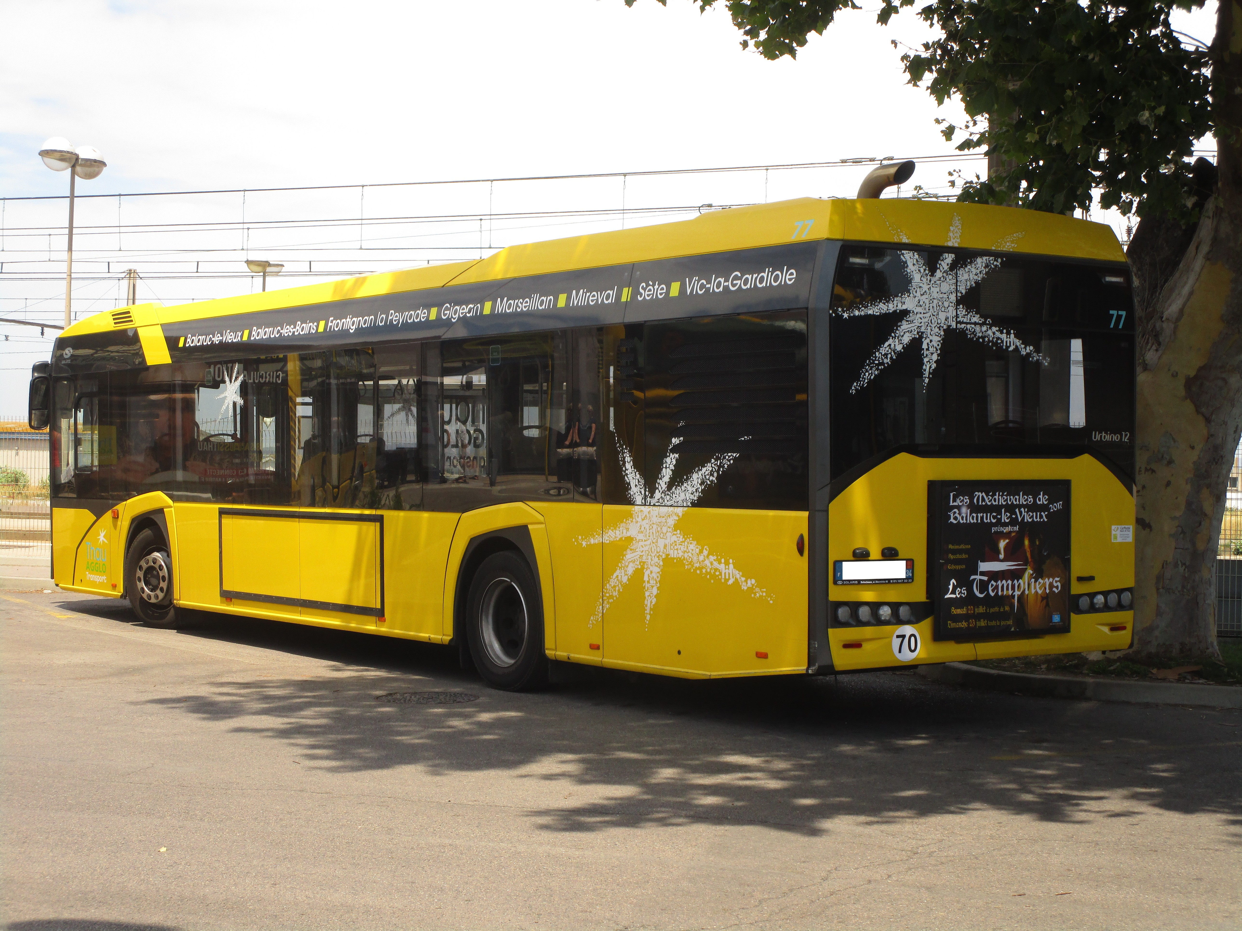 The Solaris Urbino 12 n°77 of Thau Agglo Transport at the call Gare — in Sète, France — on June 27, 2017.